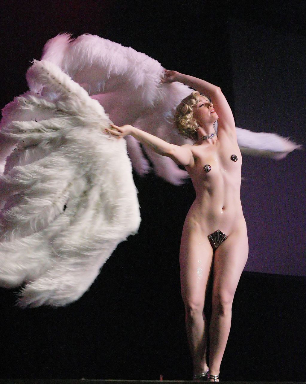 Michelle L' Amour dancing with 2 feather umbrellas wearing only pasties and c-string.